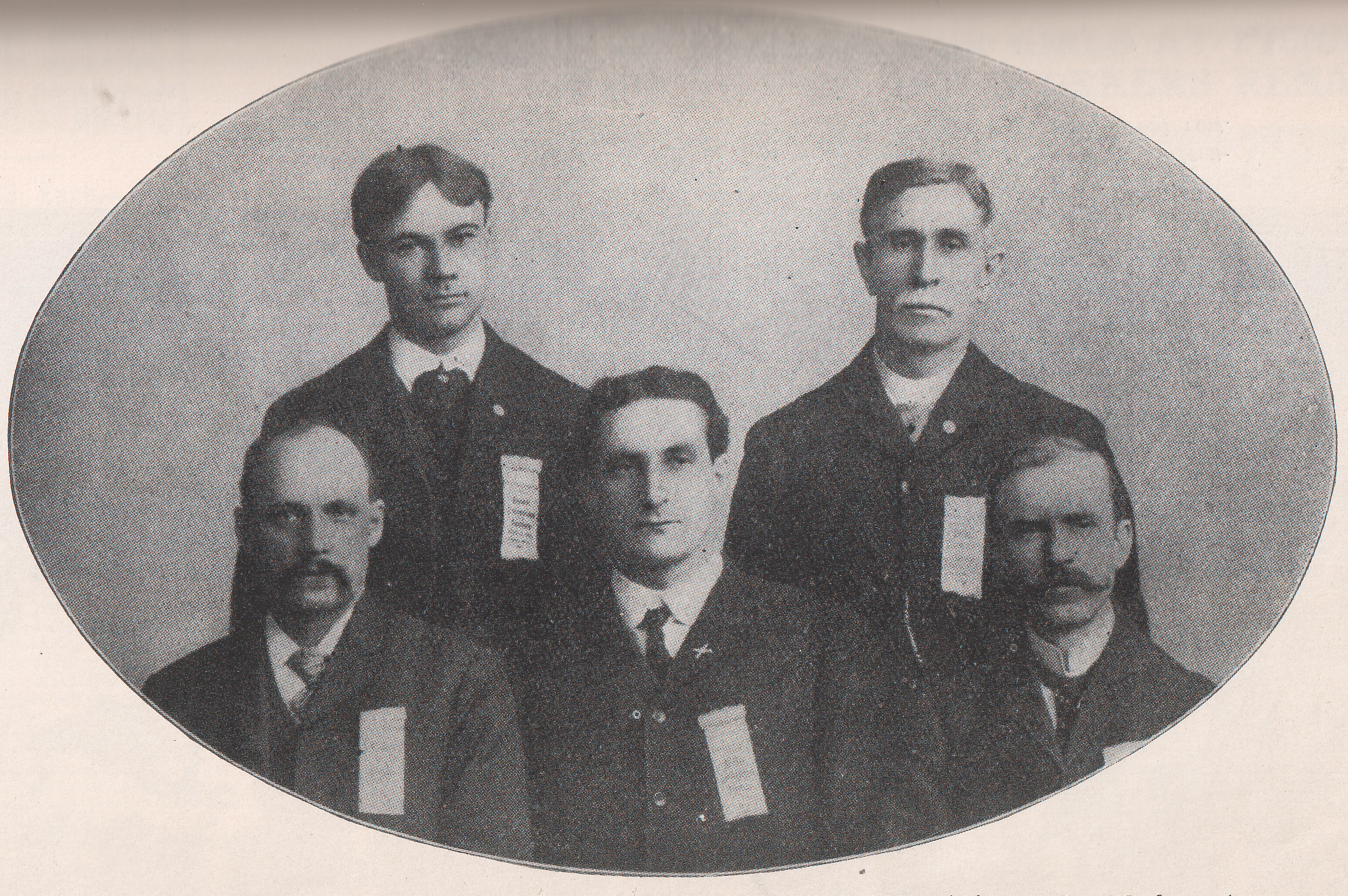 Original Description: Founders of the International Association of Fur Workers of the United States and Canada, organized in 1904. Seated, left to right: C. Bruegger, President H. V. Koch, A. F. McCormack. Standing: Secretary-Tresurer C. E. Carlson and J. C. Smolensky.